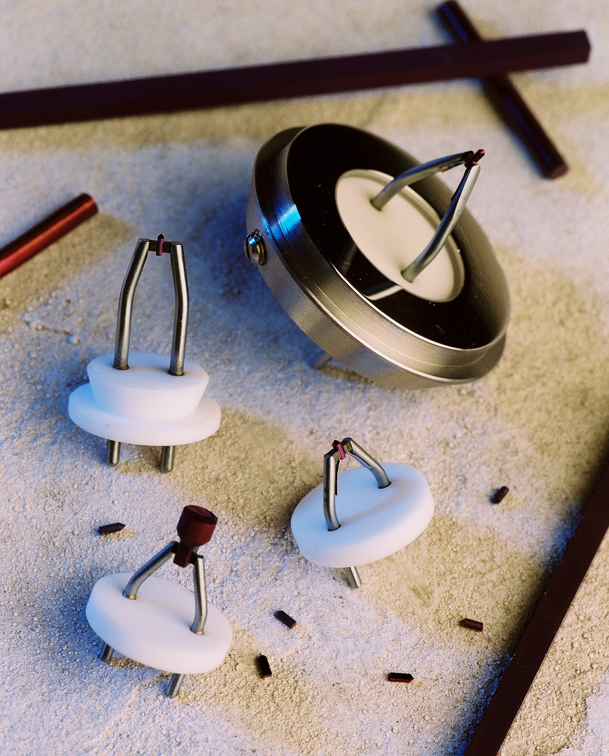 Lanathanum Hexaboride Cathode